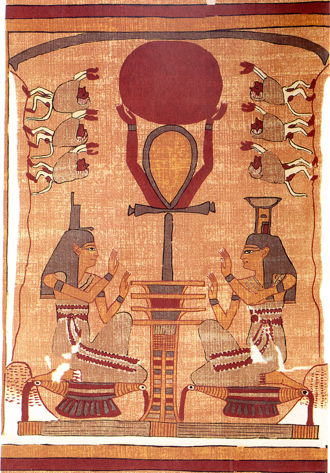 Facsimile of a vignette from the Book of the Dead of Ani. The sun disk of the god Ra is raised into the sky by an ankh-sign (signifying life) and a djed-pillar (signifying stability and the god Osiris) while adored by Isis, Nephthys, and baboons. The motif symbolizes rebirth and the sunrise.